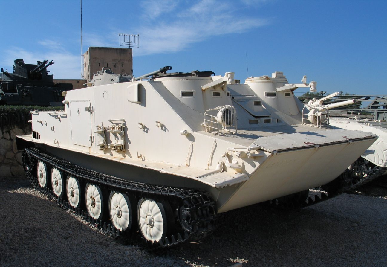 Description: OT-62 TOPAS APC in Yad la-Shiryon Museum, Israel. 2005. Source: Photo by me, User:Bukvoed